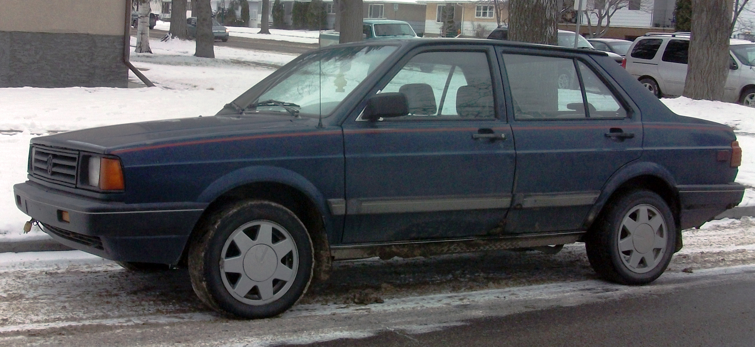 Quite a nice example of a four-door Volkswagen Fox. This one looks to be a higher trim one with alloy wheels and pin striping.